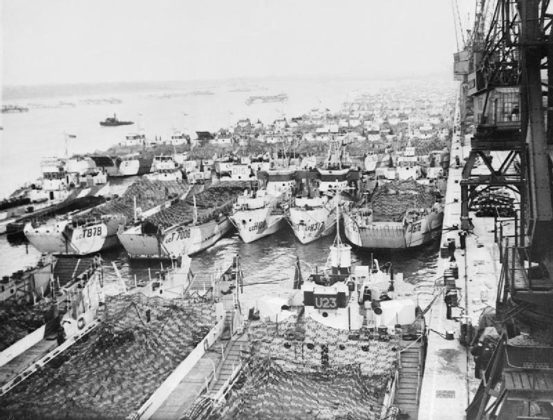 Landing craft assembled along the quayside at Southampton, waiting for D Day.